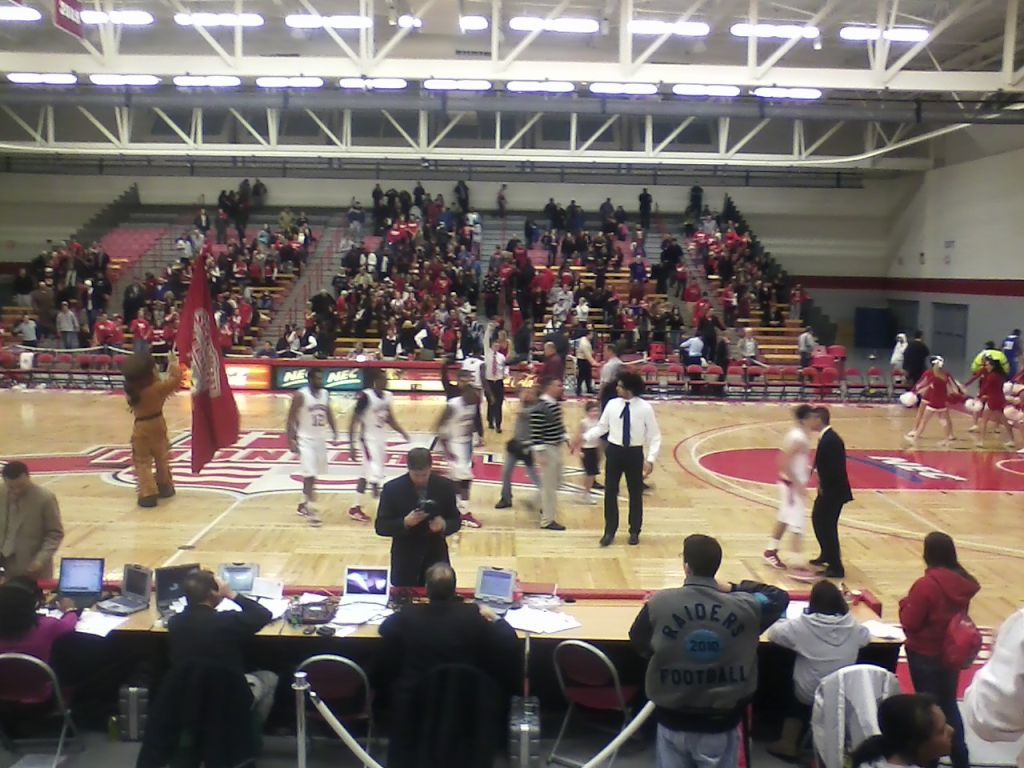 Sacred Heart Pioneers men's basketball team win over Central Connecticut State Blue Devils on January 21, 2012